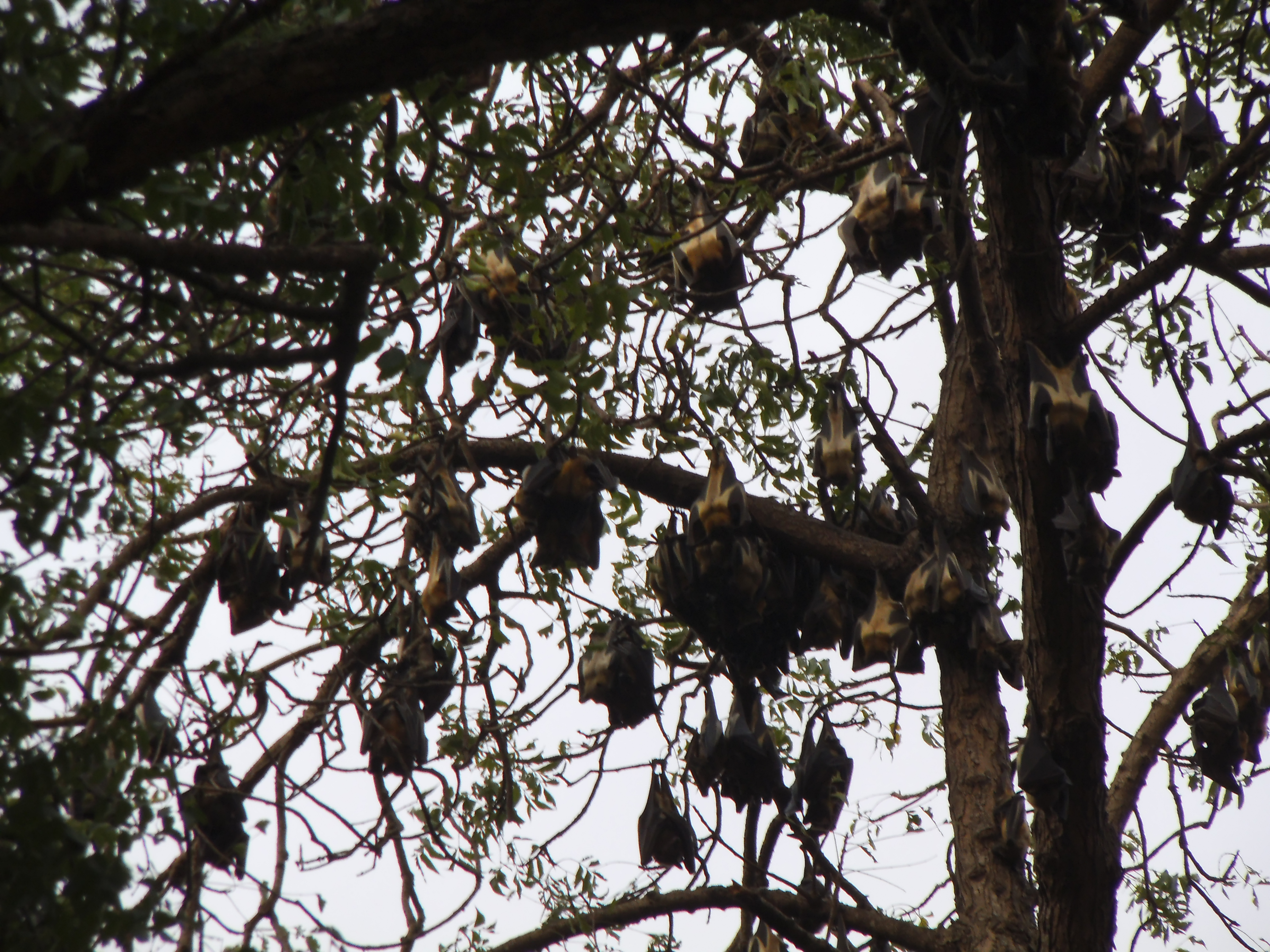 Straw-coloured fruit bats (Eidolon helvum) next to the 37 Military Hospital in Accra, Ghana.